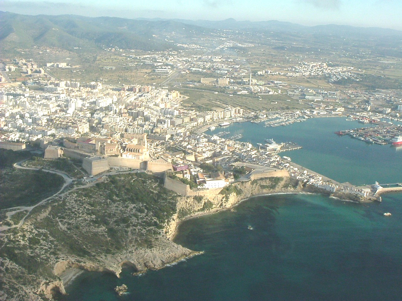 City of Eivissa (aerial view)